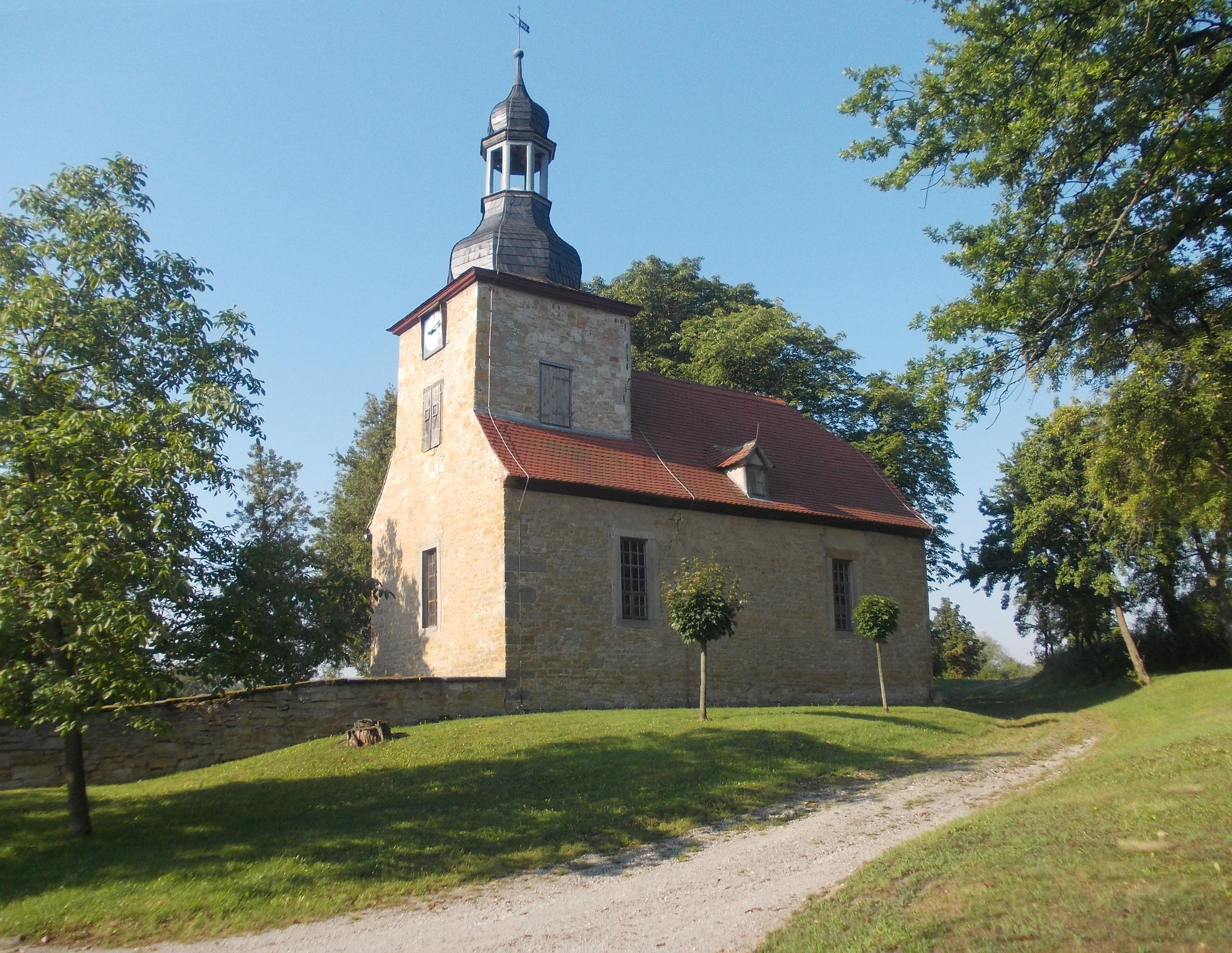 Millingsdorf church (Eckartsberga, district: Burgenlandkreis, Saxony-Anhalt)